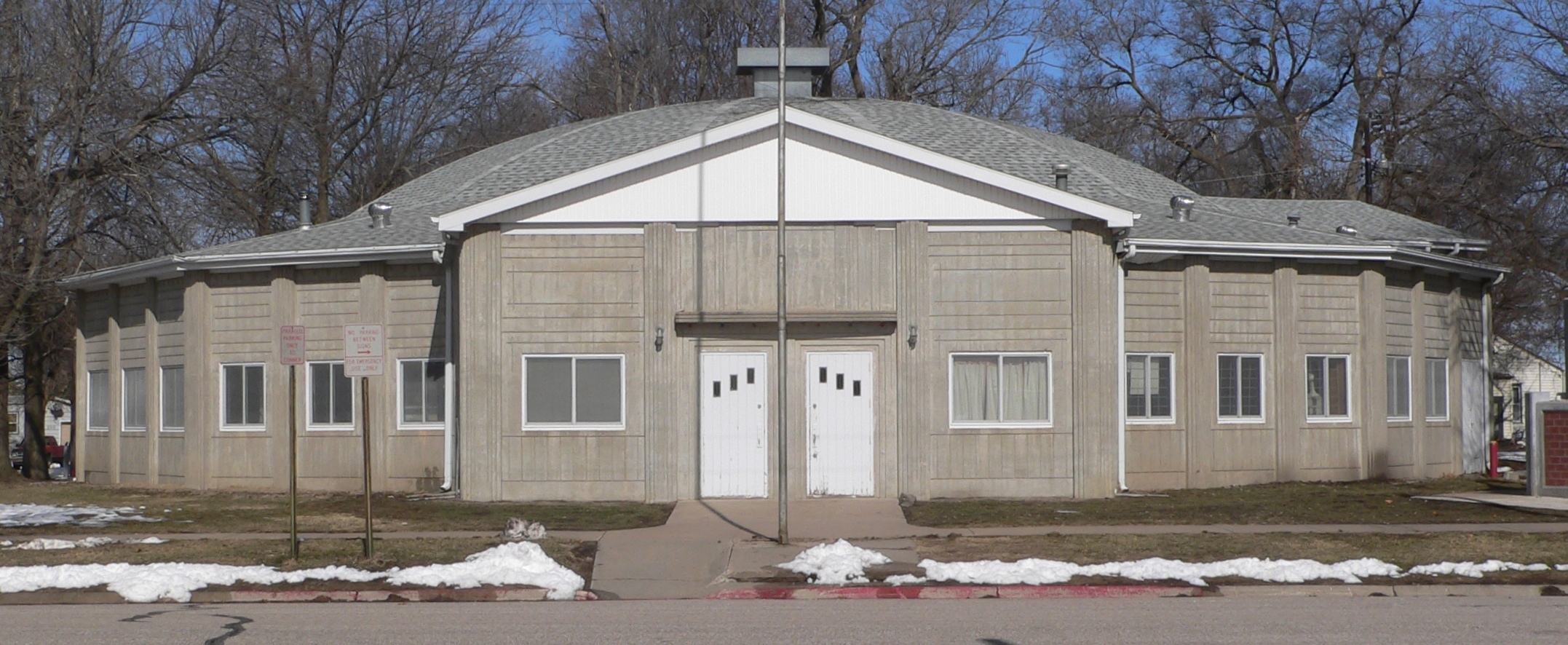 States Ballroom in downtown Bee, Nebraska; seen from the south.